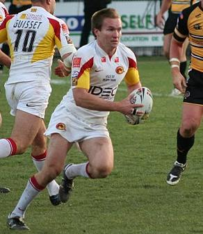 Casey McGuire playing for the Catalans Dragons in Super League (2009).